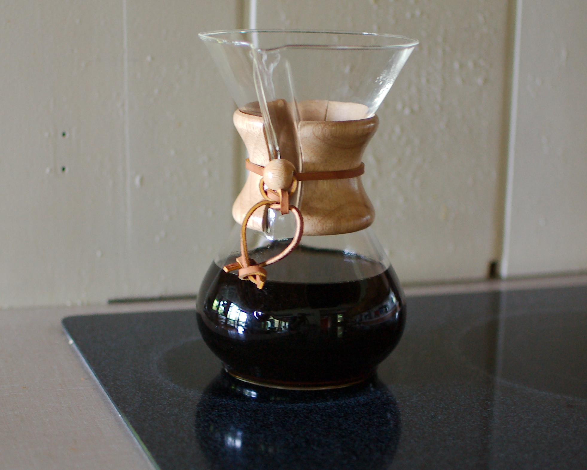 Chemex coffeemaker (6 cup variant) with a pot brewed.